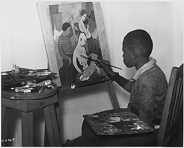 Music in Paint: Jacksonville, Florida Negro Federal Gallery. (59207, 00/00/1935, 27-0800a.gif)